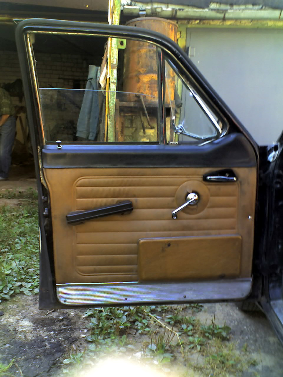 Soviet classic car - '79 Volga. Interior. Taken by Stanislav Alexeyev in 2007 to be posted in "Volga" and "GAZ-24" Wikipedia articles. Sorry for poor quality, my digital camera was uncharged that day and I used my mobile phone instead ;-) No (C) license.